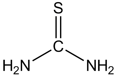 Used ChemDraw